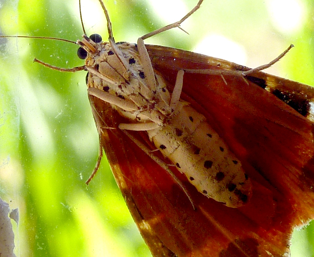 Jersey Tiger (Euplagia quadripunctaria) - belly side. Summertime in Charente-Maritime (France)